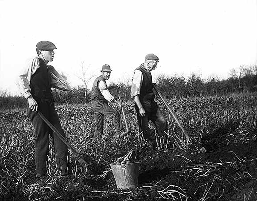 Three labourers on the Clonbrock Estate, Ahascragh, Co. Galway. Date: Circa 1900 NLI Ref.: CLON739